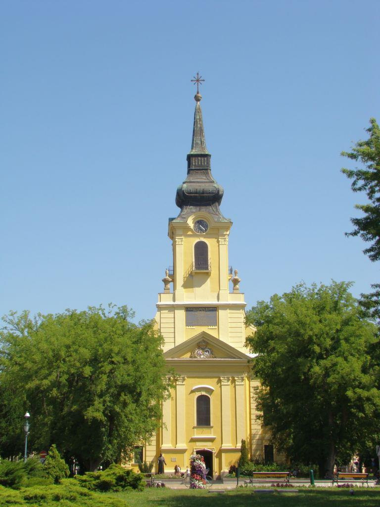 Orthodox Christian Cathedral in Gyula, Hungary